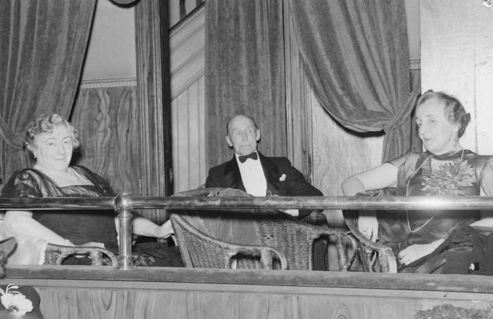 Three spectators including Sir and Lady Montagu Allan, sitting on the balcony of "His Majesty's Theatre" located at 1421 Guy Street in Montreal. They attend the premiere of Ethel Barrymore.